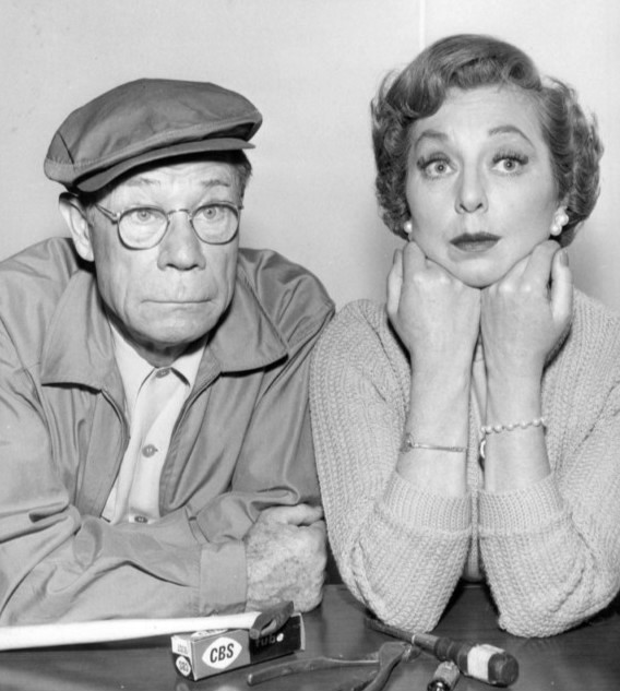 Publicity photo from the television program The Ann Sothern Show. Pictured are series regular Ann Tyrell (Olive) and guest star Joe E. Brown.